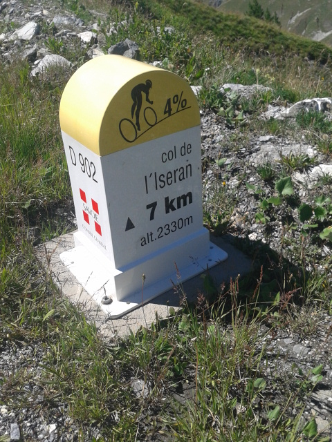 2015 Mountain pass cycling milestone - Iseran from Val d Isere